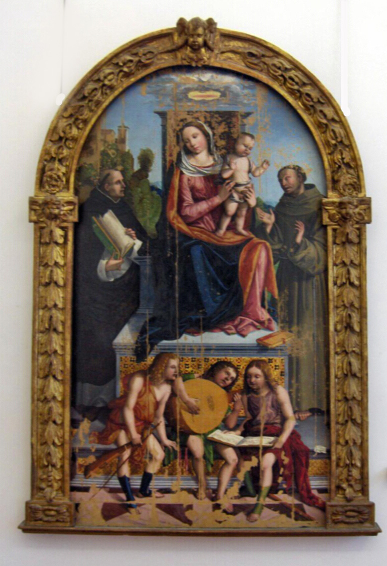 Madonna enthroned with St. Dominic and St. Francis